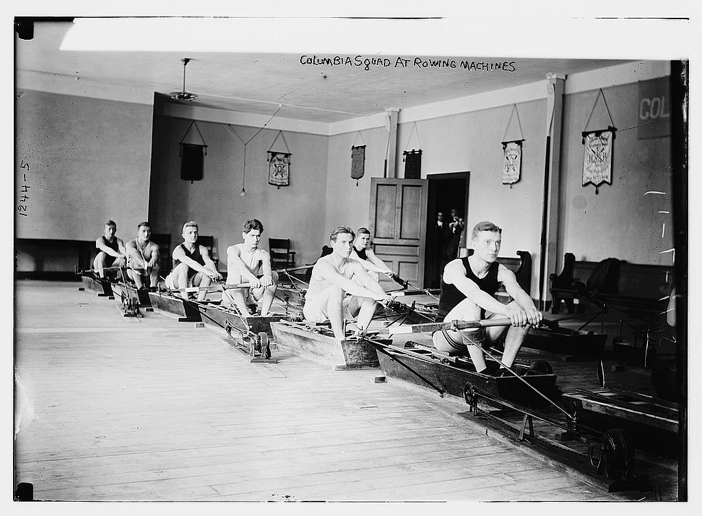 Columbia Squad at rowing machines (LOC) Bain News Service,, publisher. Columbia Squad at rowing machines [between ca. 1910 and ca. 1915] 1 negative : glass ; 5 x 7 in. or smaller. Notes: Title from unverified data provided by the Bain News Service on the negatives or caption cards. Forms part of: George Grantham Bain Collection (Library of Congress).